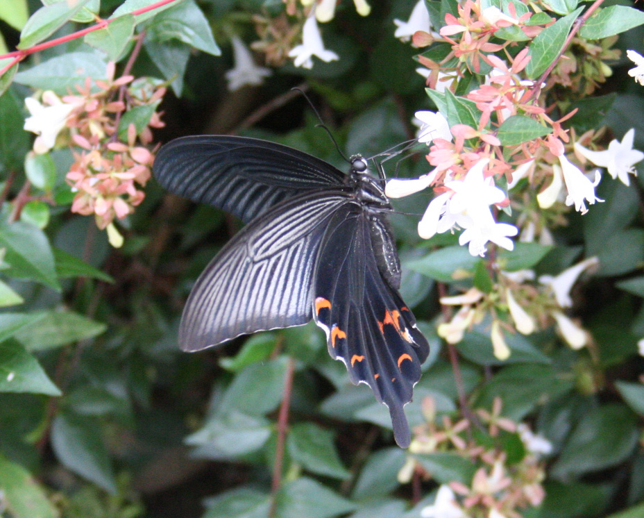 Location:akishima city, tokyo, Japan